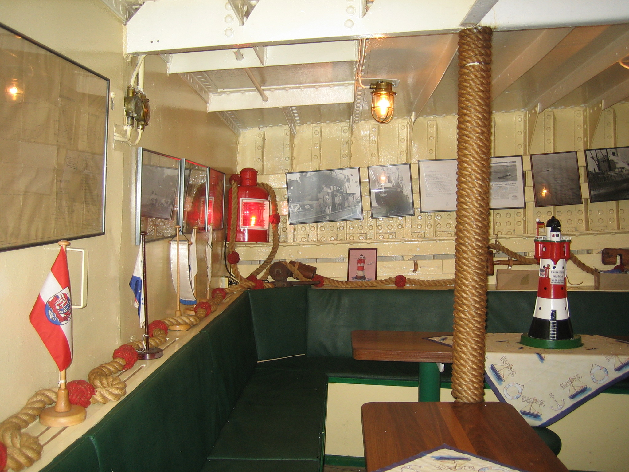 This is a self-taken picture of the ship Goliath on the travel to lightfire Roter Sand near the german coast, near Bremerhaven. Photograph by Tim Rausch.